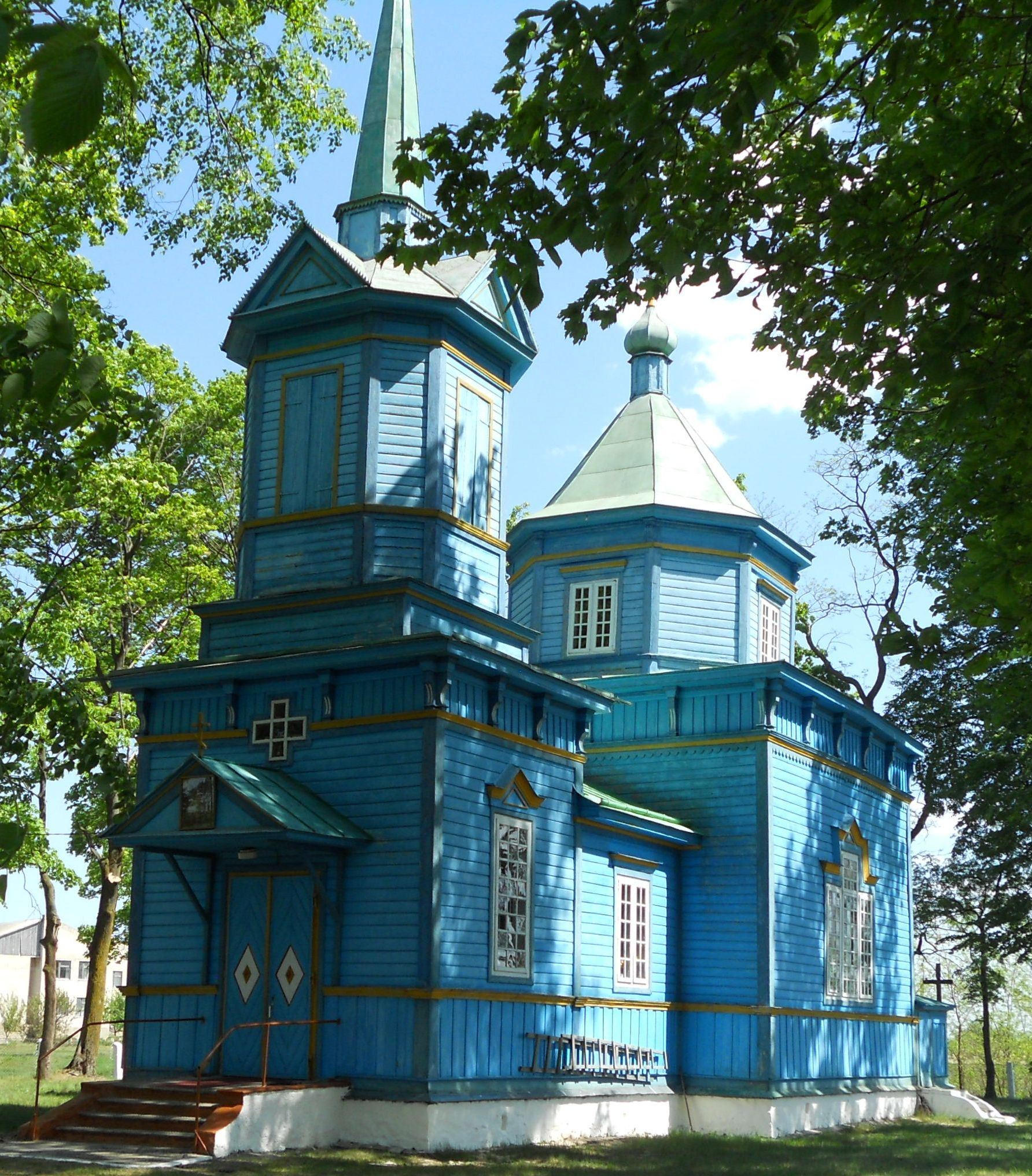 Church of the Nativity of the Virgin with. Smorodsk